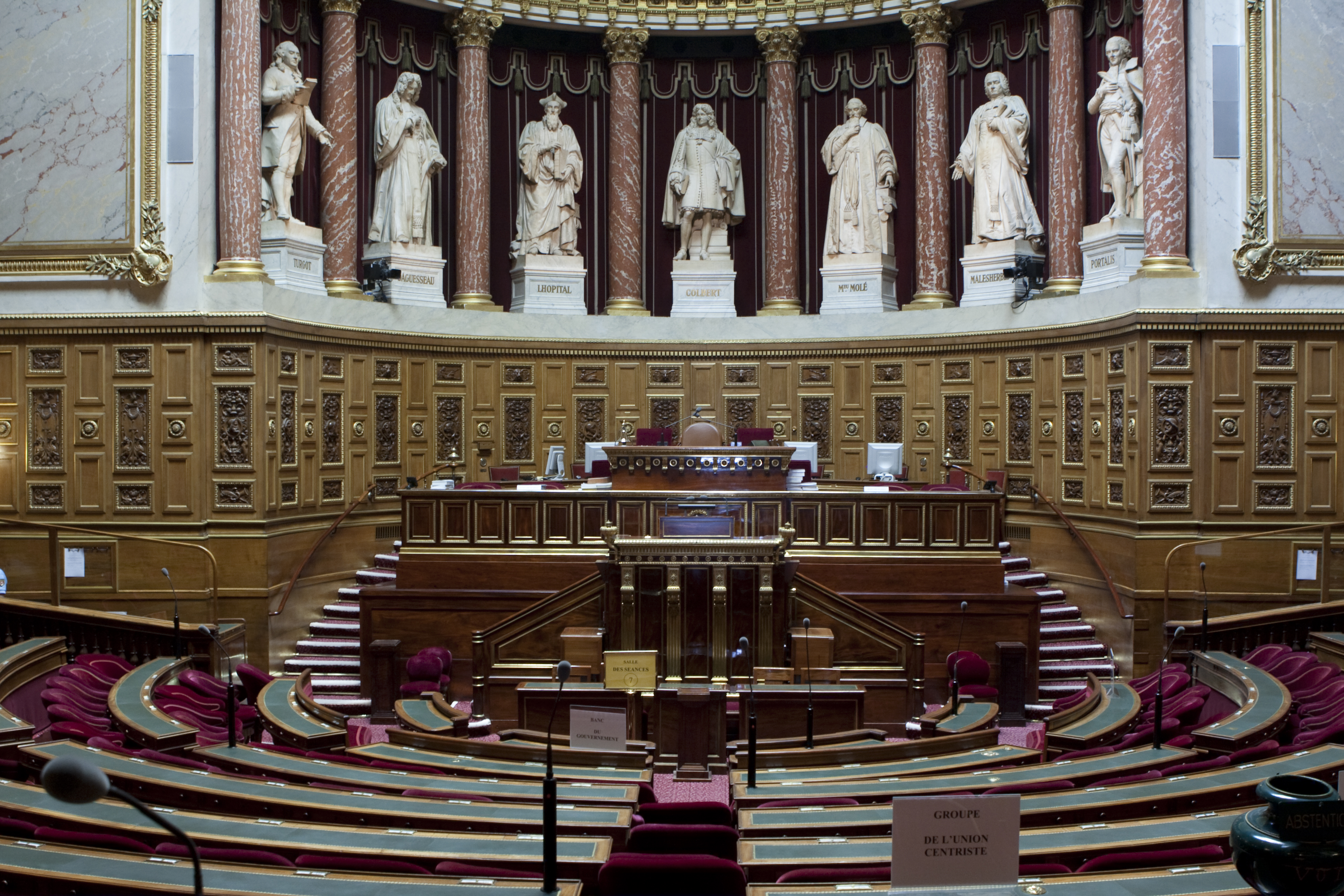 Senate of France Amphitheater Sculptures from left to right: Turgot; Daguesseau; Lhopital; Colbert; Mole Malesherbes Portalis